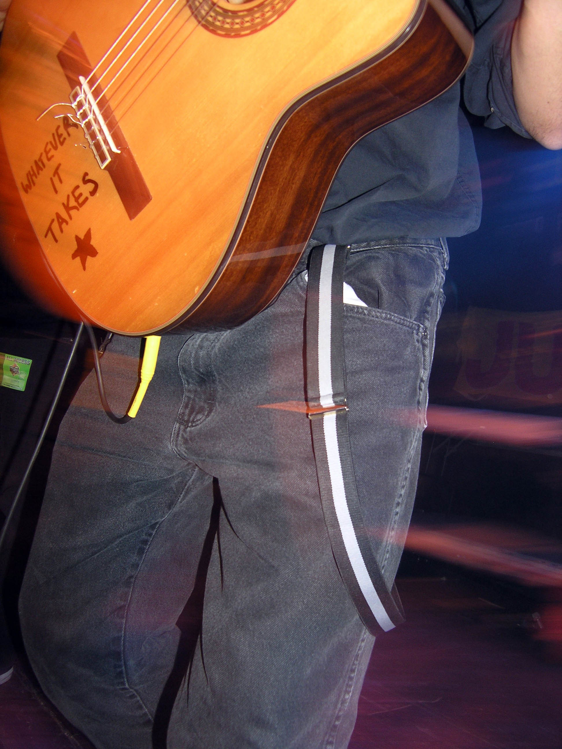 Tom Morello's guitar, Whatever it Takes